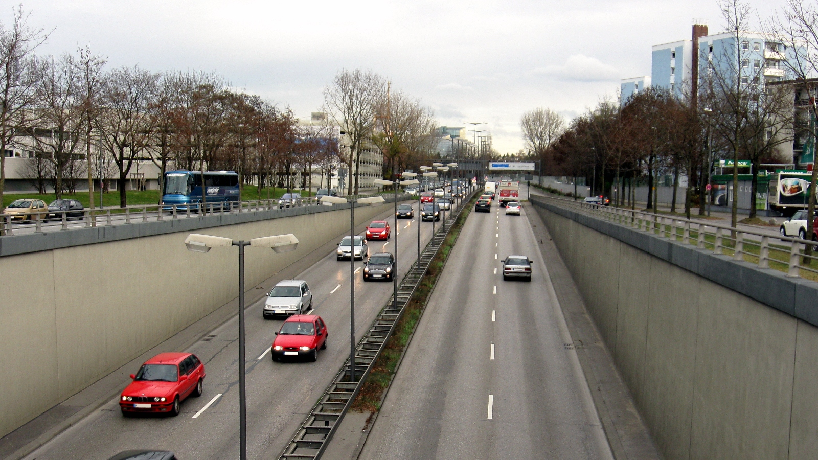 Western end of the Petuelring in Munich (Bavarian, Germany) crossing Lerchenauer Straße